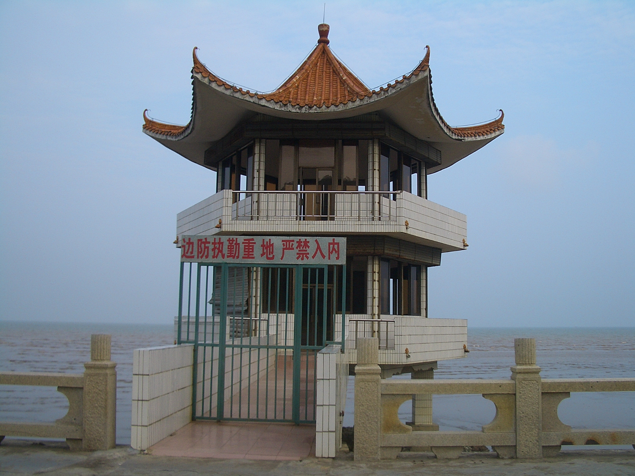 Qinglü Embankment in Zhuhai, along the shore of the Pearl River Estuary. Looking north from Gongbei toward Jiuzhou Harbor. The pagoda-like booth is for the border guards (one of whom can be seen through the window)